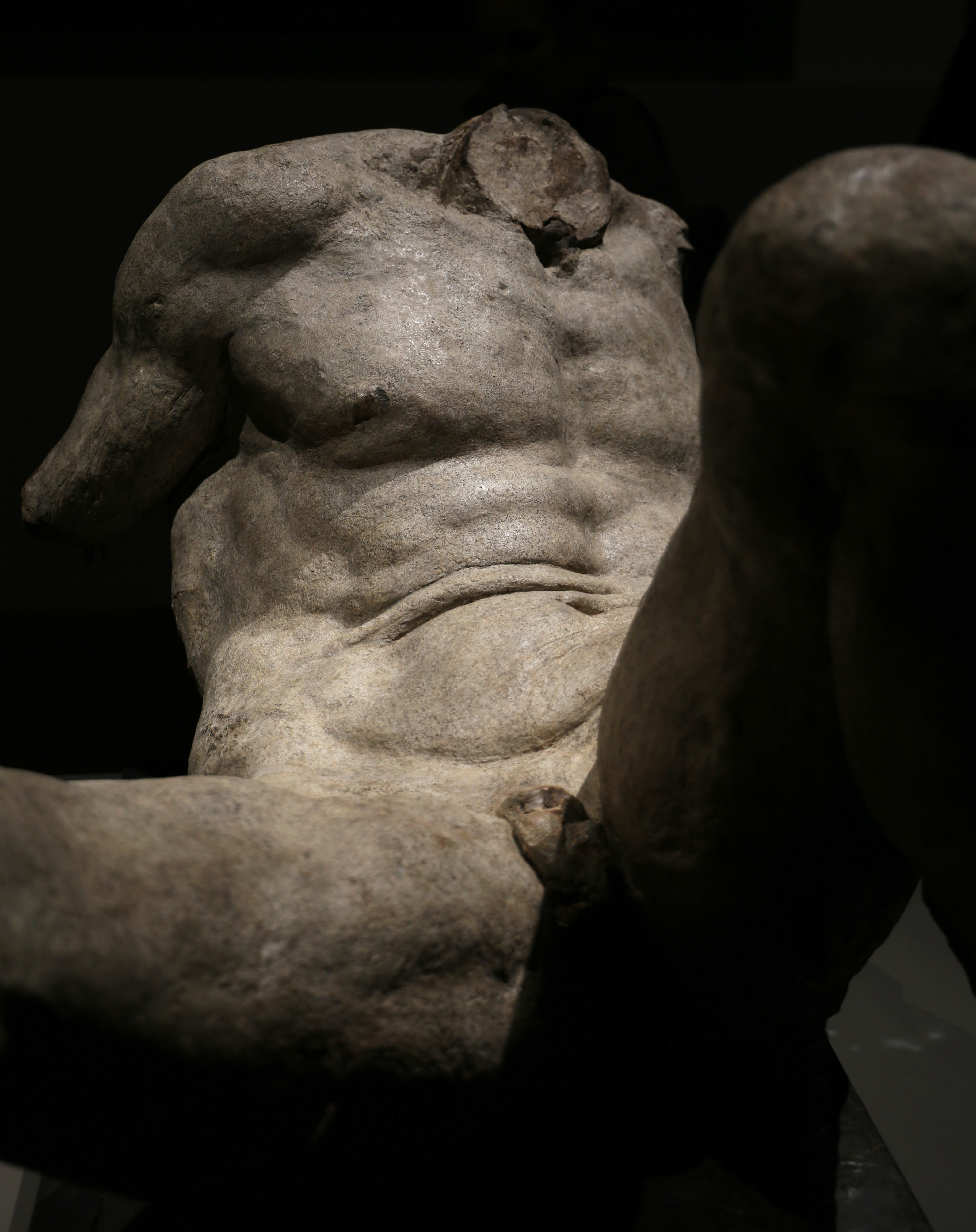 Il Cinquecento a Firenze (2017 exhibition)